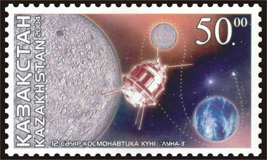 Stamp of Kazakhstan